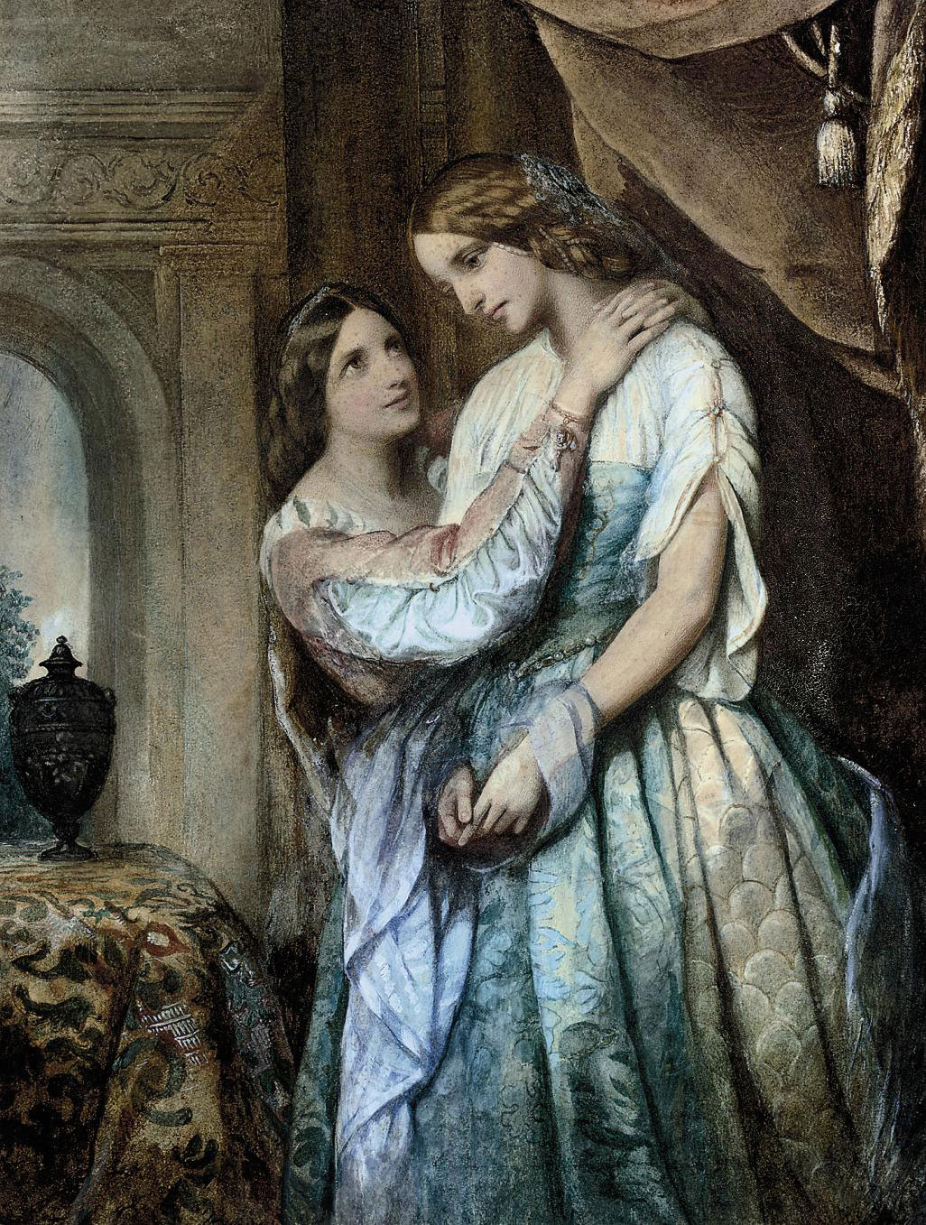 As You Like It, Act I, Scene 3